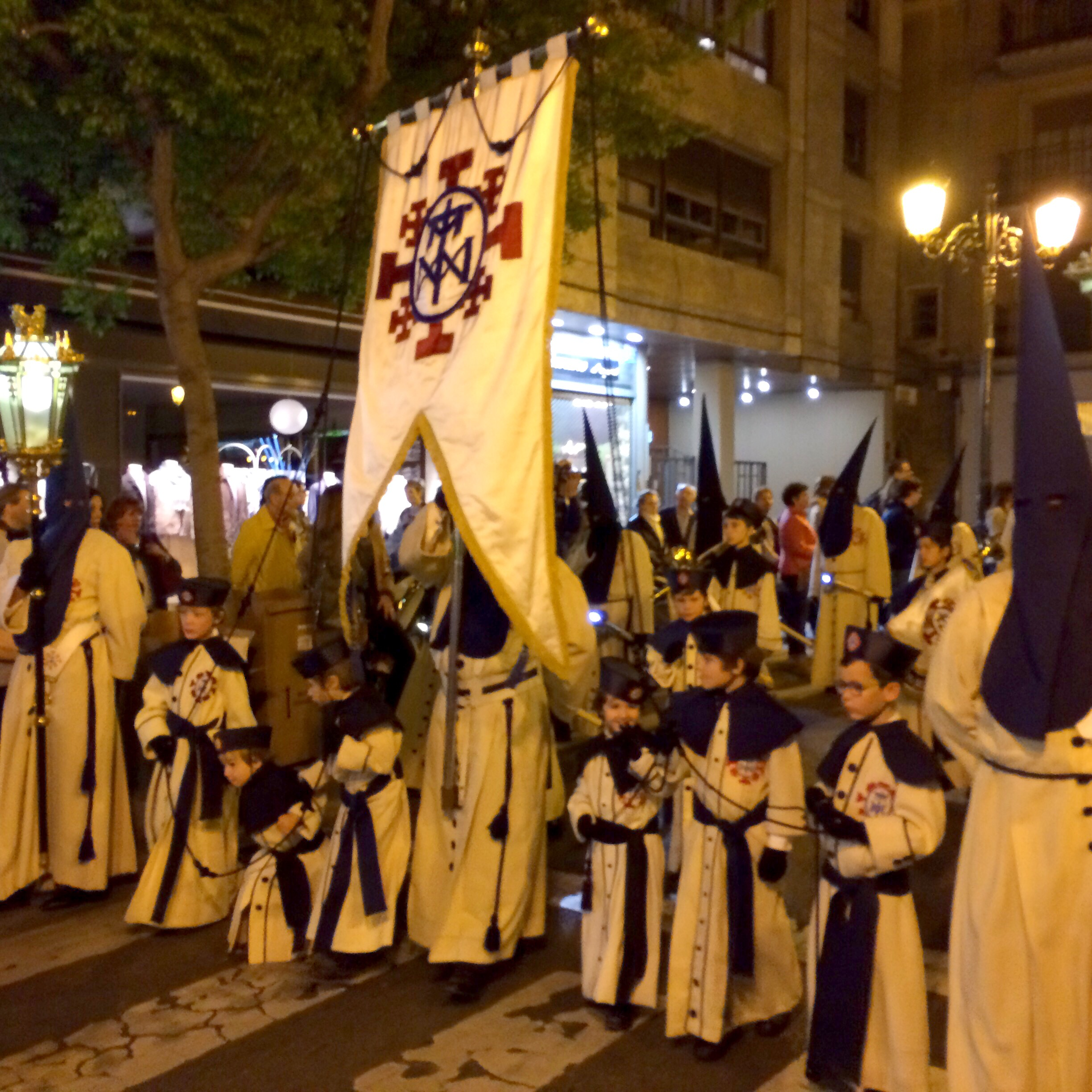 Holly Week procession in 2017 in Zaragoza (Spain)